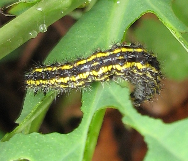 Caterpillar of Haploa moth on bluebells (Mertensia virginica). Dry Fork River, Randolph County, West Virginia, USA.